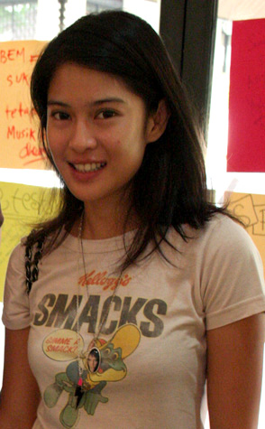 Indonesian actress Dian Sastrowardoyo, 2007.